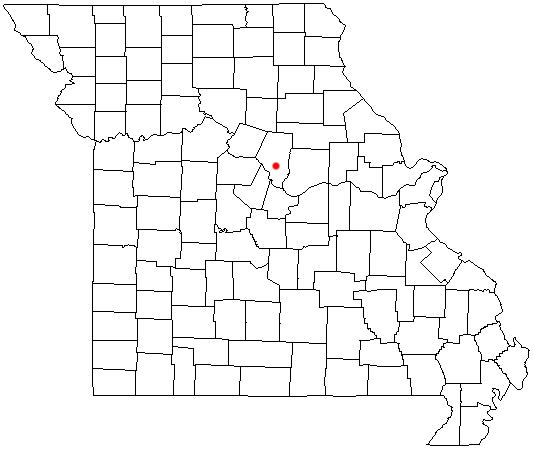 Pierpont, Missouri location map; created with the GIMP. Made by User:Acntx.